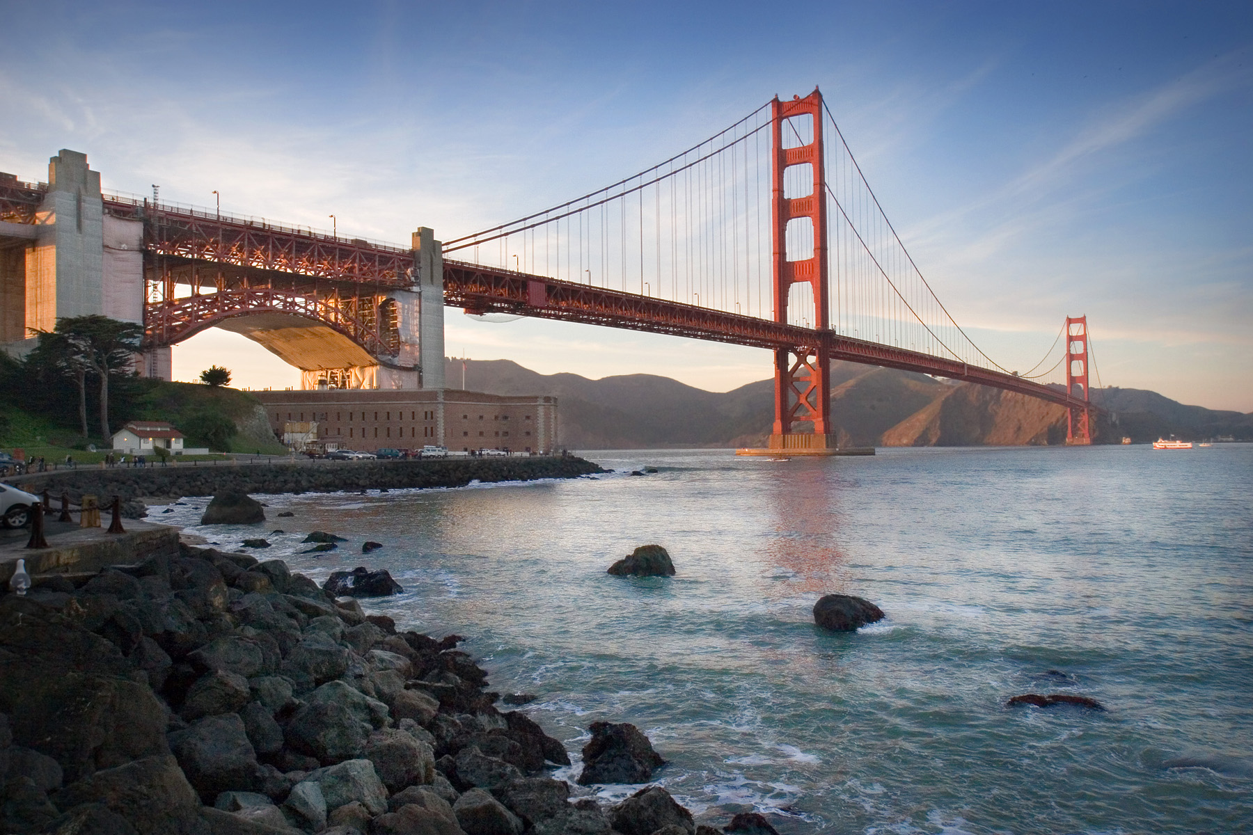 The Golden Gate Bridge and historic Fort Point as seen in the last golden rays of a December evening sunset.